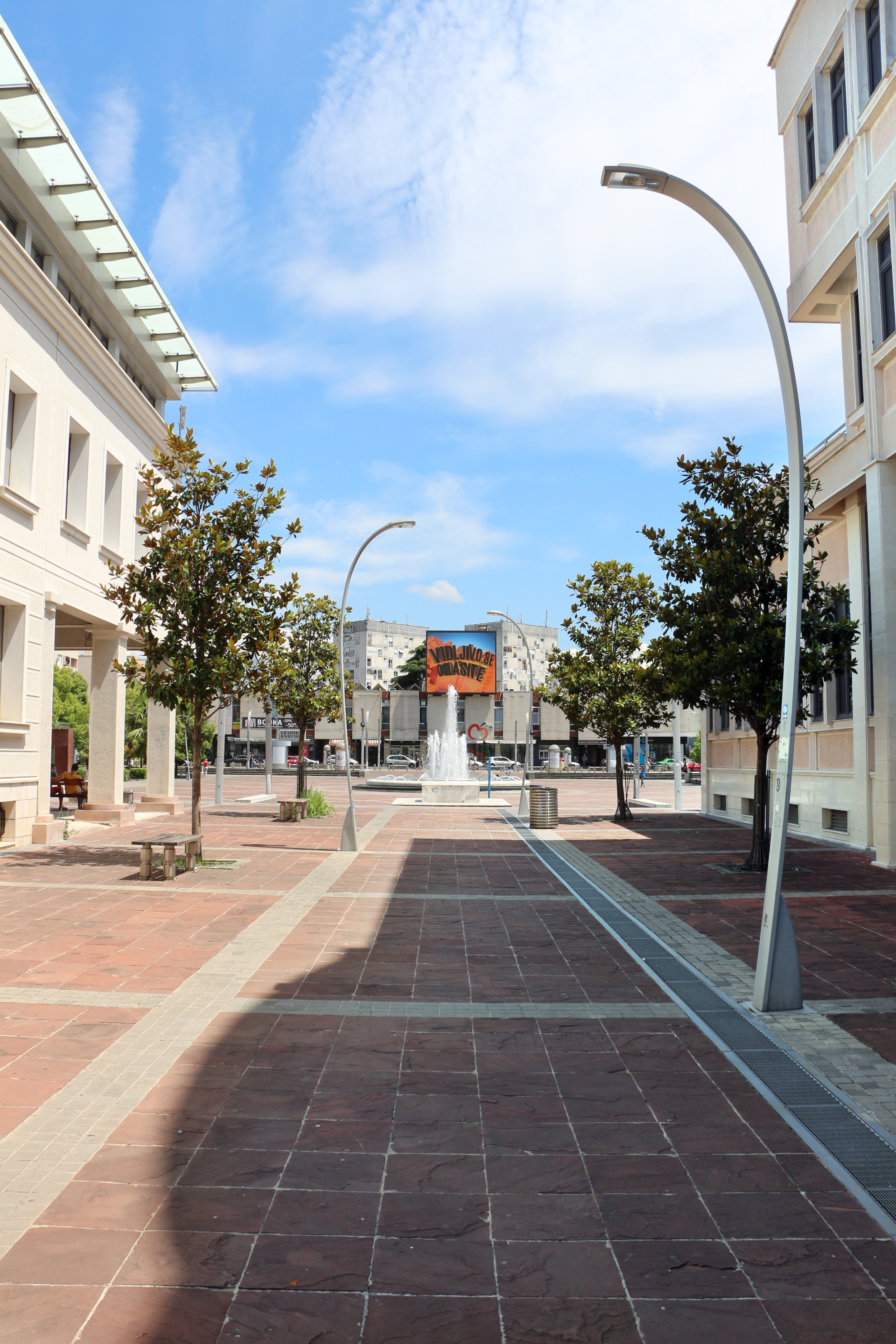 Republic Square (Podgorica)